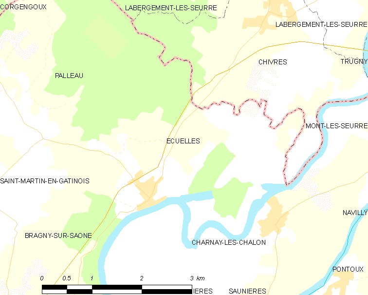 Map of French municipality